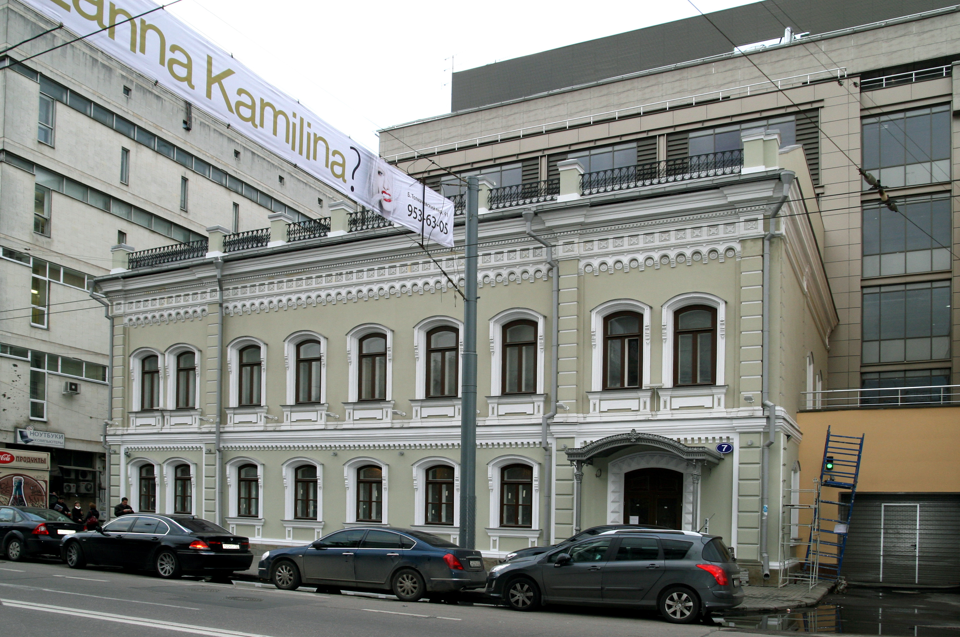 Moscow, Malaya Dmitrovka Street 7